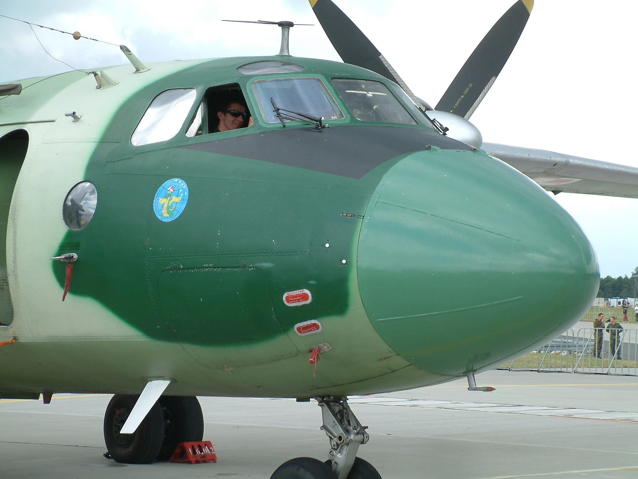 An-26 #1509 from 13th Transport Aviation Sqn, 31st Air Base Poznań-Krzesiny